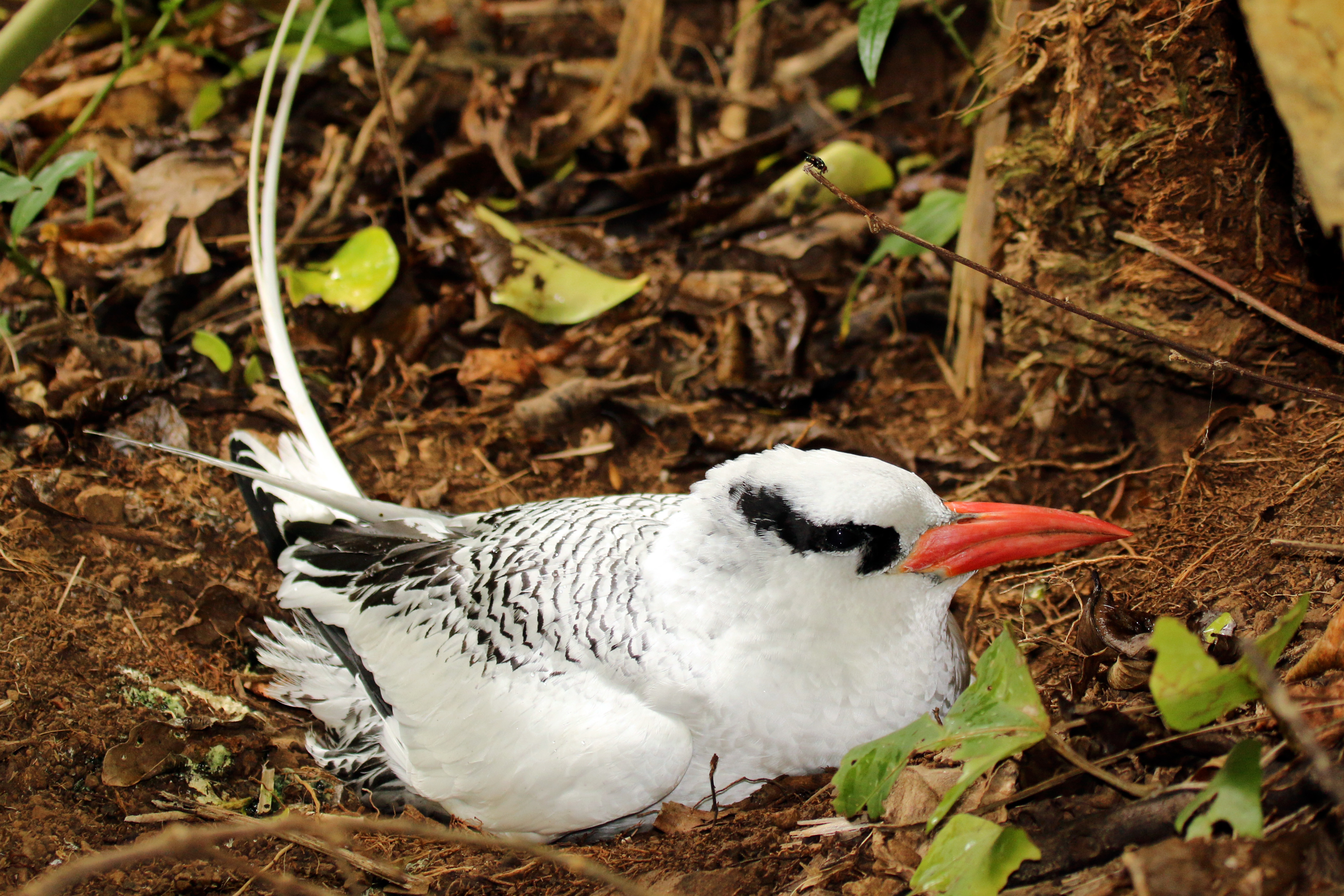 Red-billed tropicbird (Phaethon aethereus mesonauta) nesting, Little Tobago